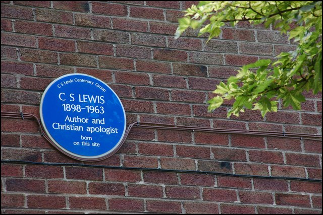 C S Lewis plaque, Belfast. See 448444. This plaque, in Dundela Avenue, near the North Road, marks the site of the birthplace of CS Lewis. There is no trace of the house. The site is now occupied by Dundela Flats. For the next step in the CS Lewis trail continue to 524223.